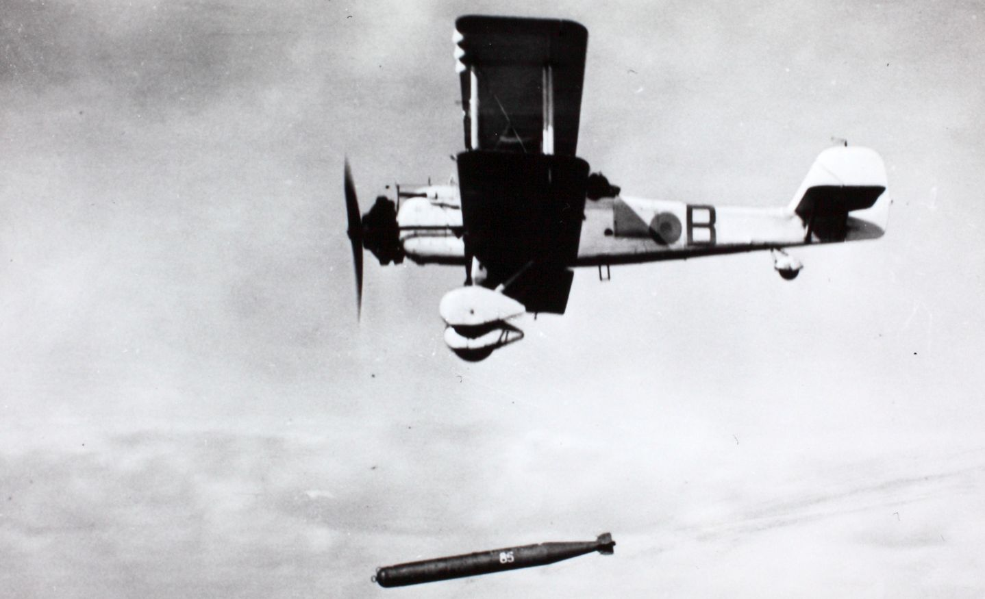 Image from the Charles Daniels Photo Collection album "British Aircraft." SOURCE INSTITUTION: San Diego Air and Space Museum Archive